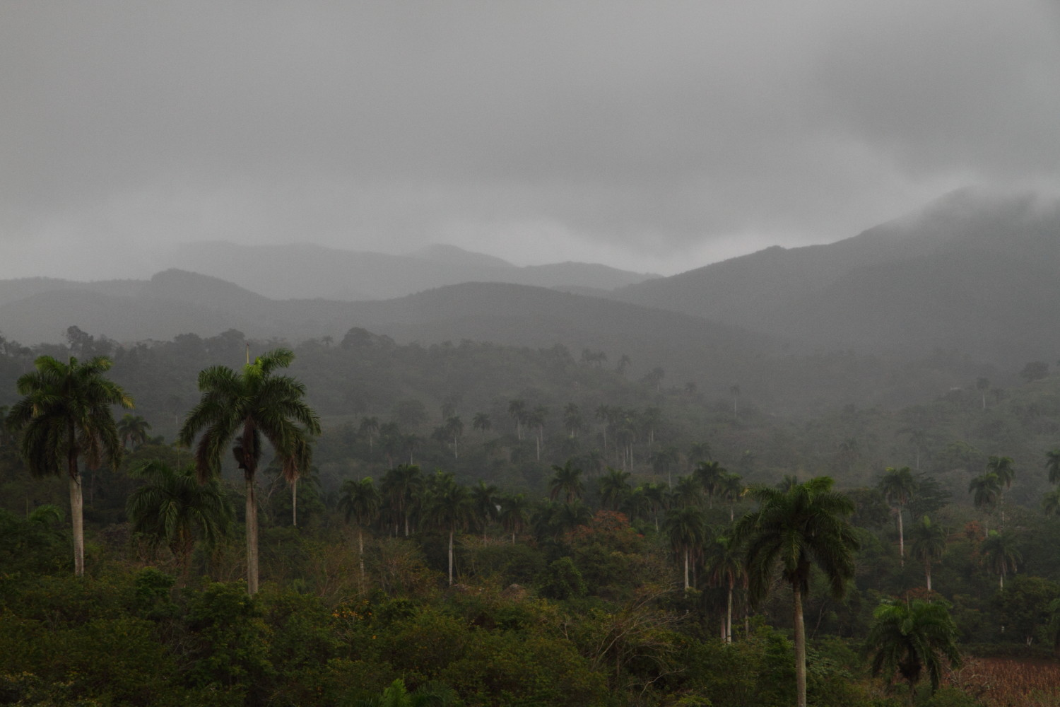 In the mountains of glass, south of Sagua de Tánamo